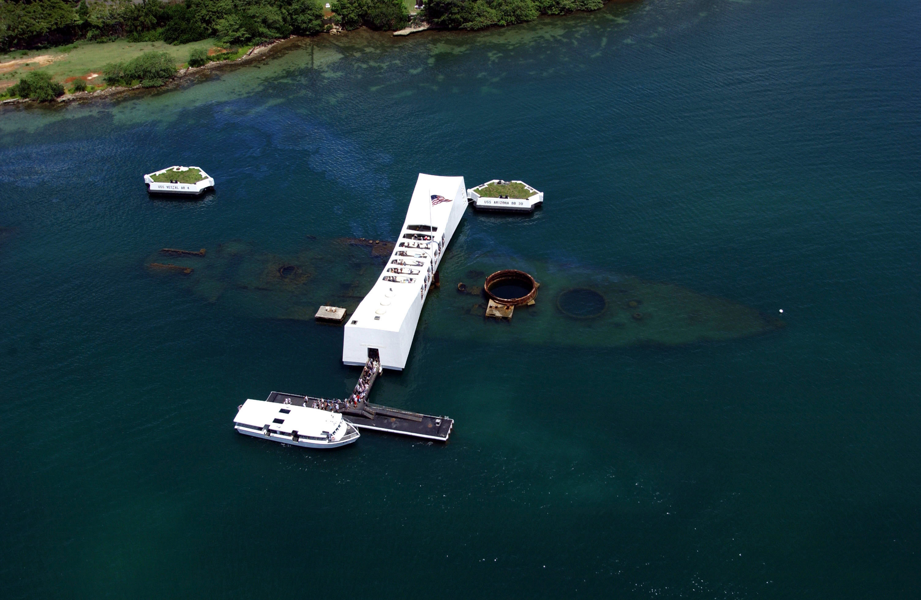 An aerial view of the USS Arizona Memorial with a US Navy (USN) Tour Boat, USS Arizona Memorial Detachment, moored at the pier as visitors disembark to visit and pay their respects to the Sailors and Marines who lost their lives during the attack on Pearl Harbor on December 7, 1941.